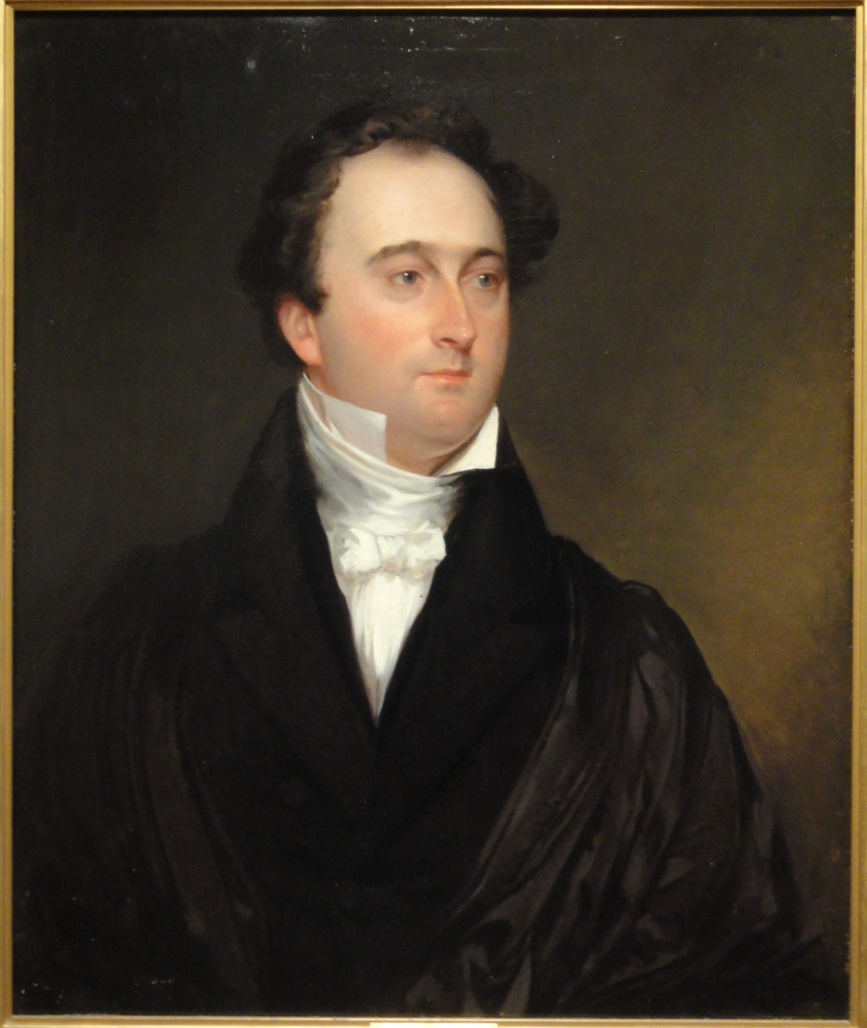 Exhibit in the Museum of Fine Arts, Springfield, Massachusetts, USA. This artwork is old enough so that it is in the public domain.